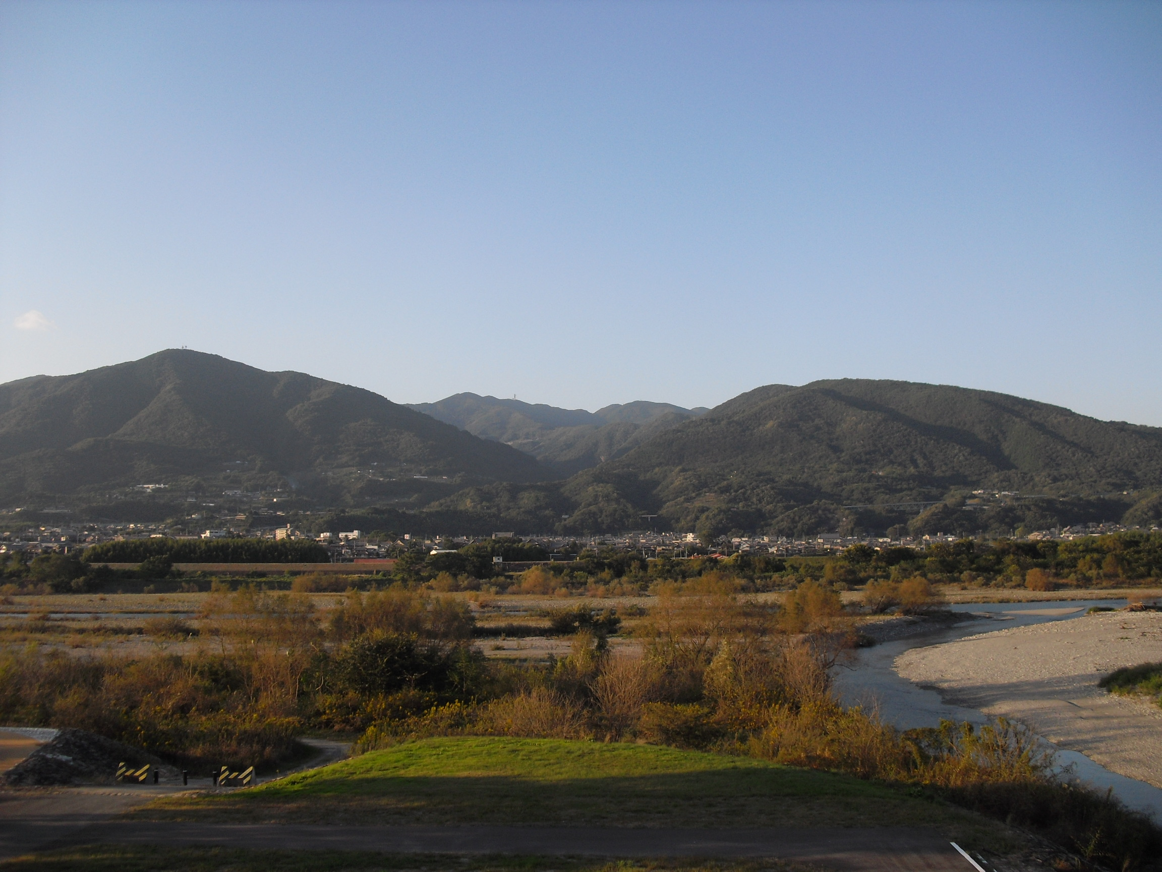 Mount Ryuo (Ryuo-san) as seen from the south. Mount Ryuo in the center. Yoshino River in the foreground.